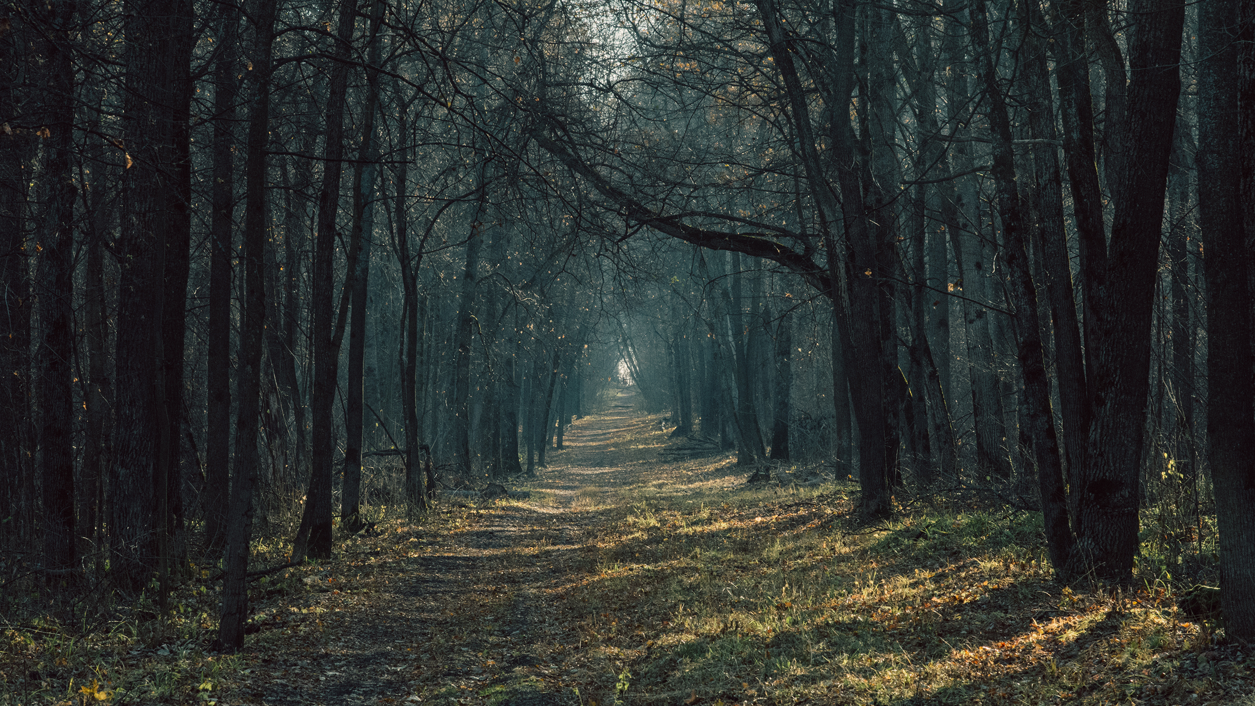 Arbekovo Forest: Penza This image is related to the protected area of Russia number 5810077